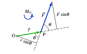 Momento de uma força